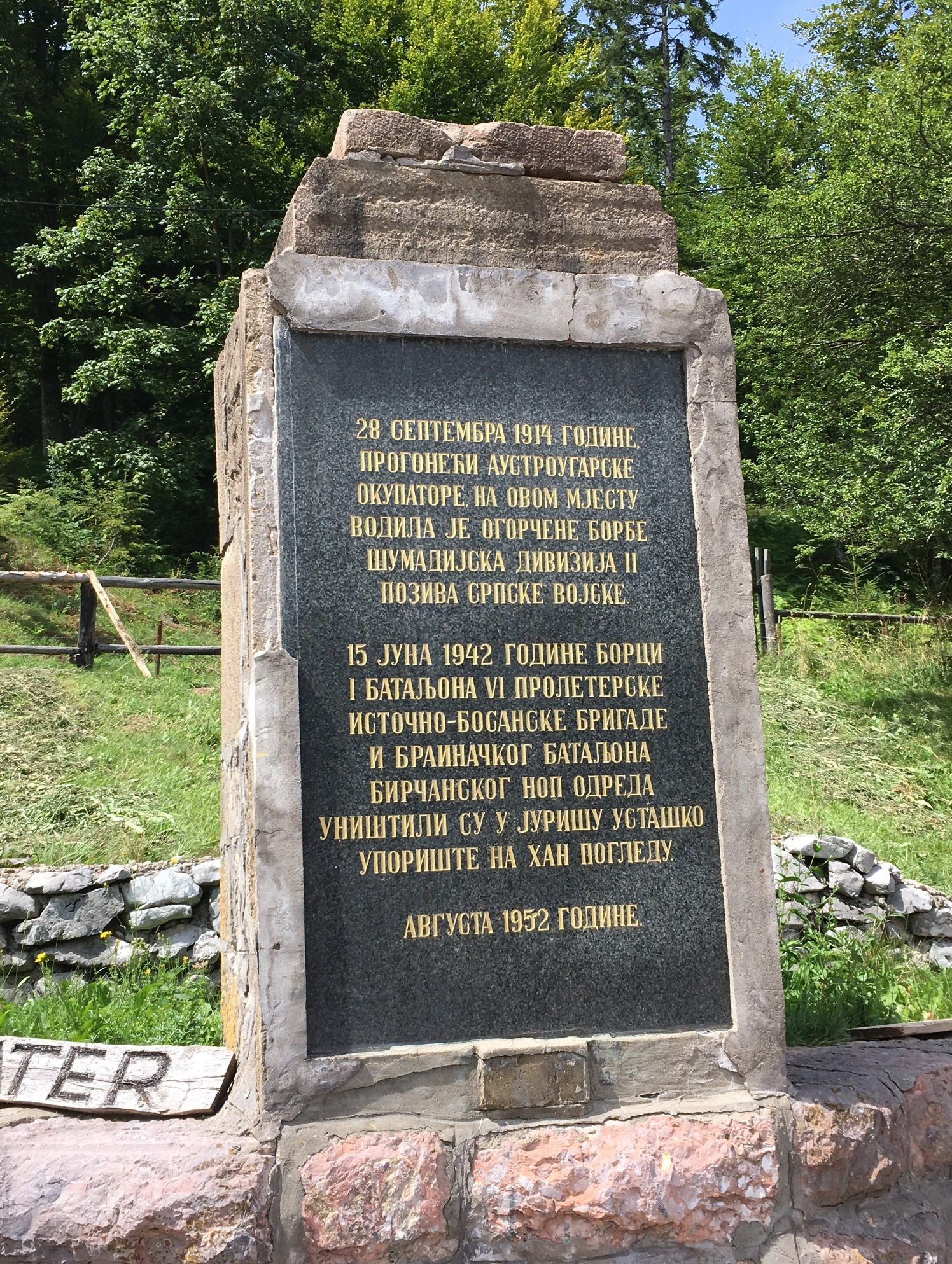 Monument in Vlasenica in the honour of the victory of Serbian army against Austro-Hungarian invaders and Yugoslav partians who destroyed the Croatian Ustaše in a place nearby.